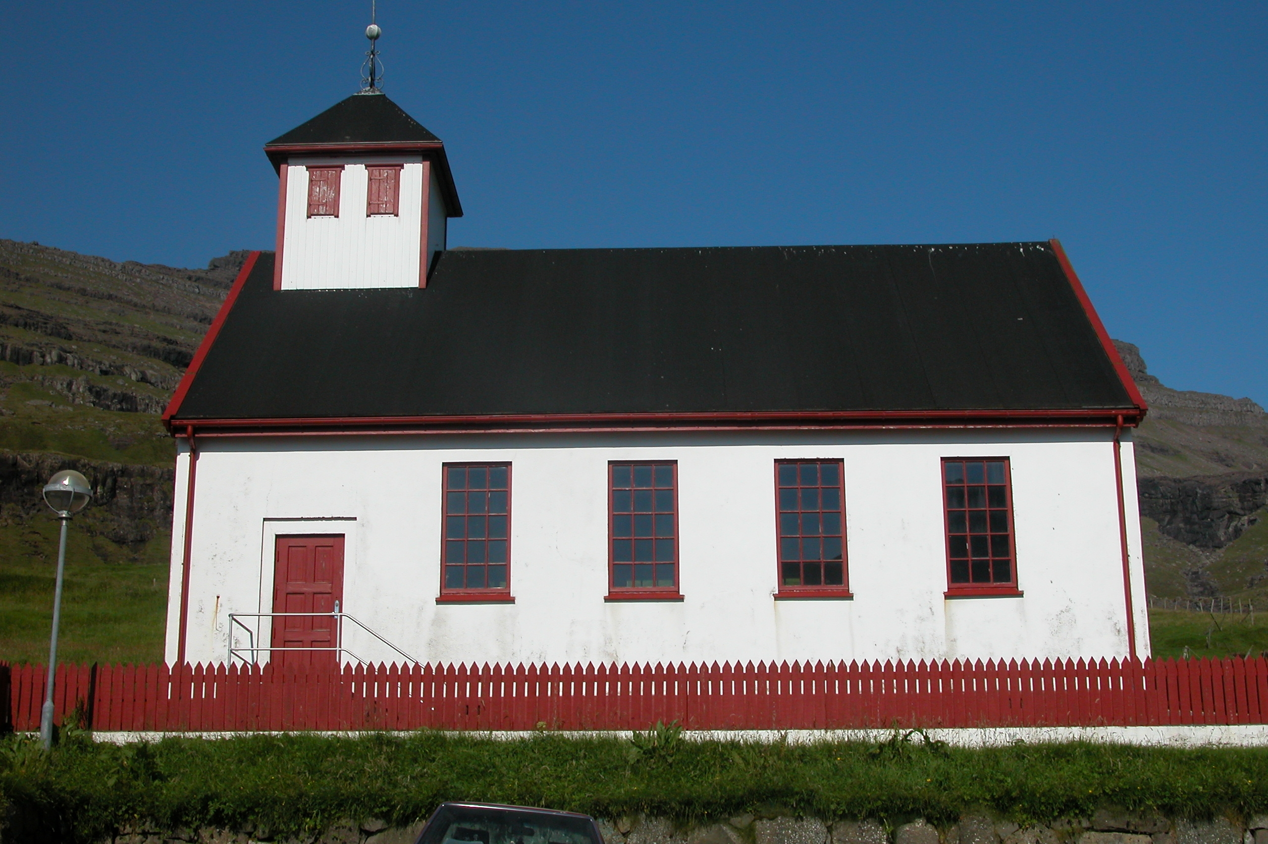 Church of Árnafjørður on Borðoy, Faroe Islands.